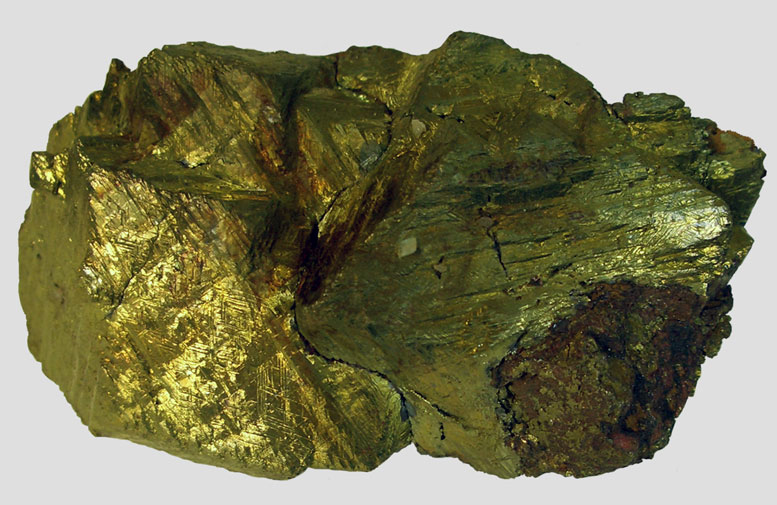 Crystals of chalcopyrite, druse of 9,5 cm. From Dal'negorsk, Russia.